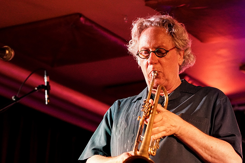 Tim Hagans at Aarhus Jazz Festival 2017